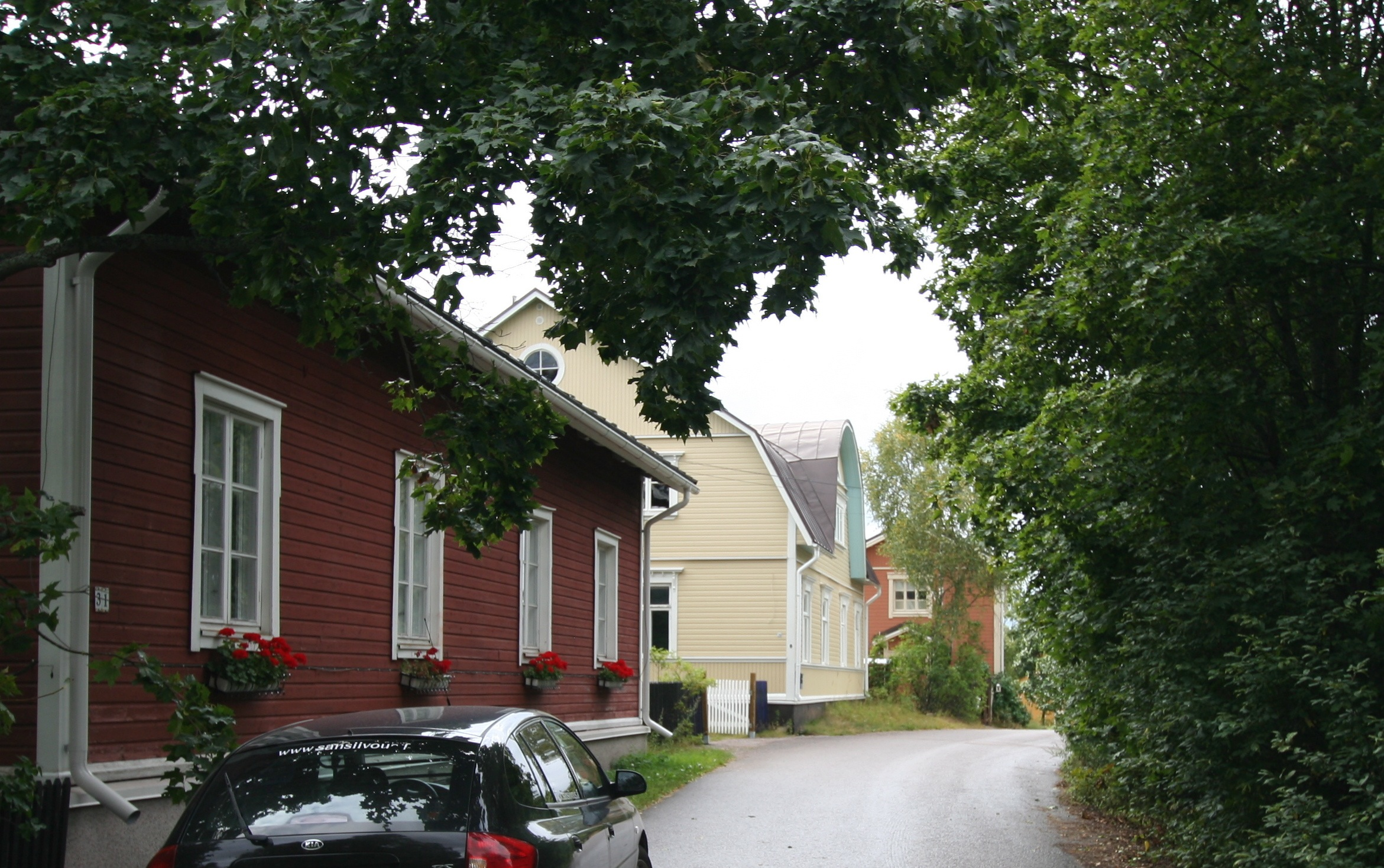 Käkelä Orimattila Finland